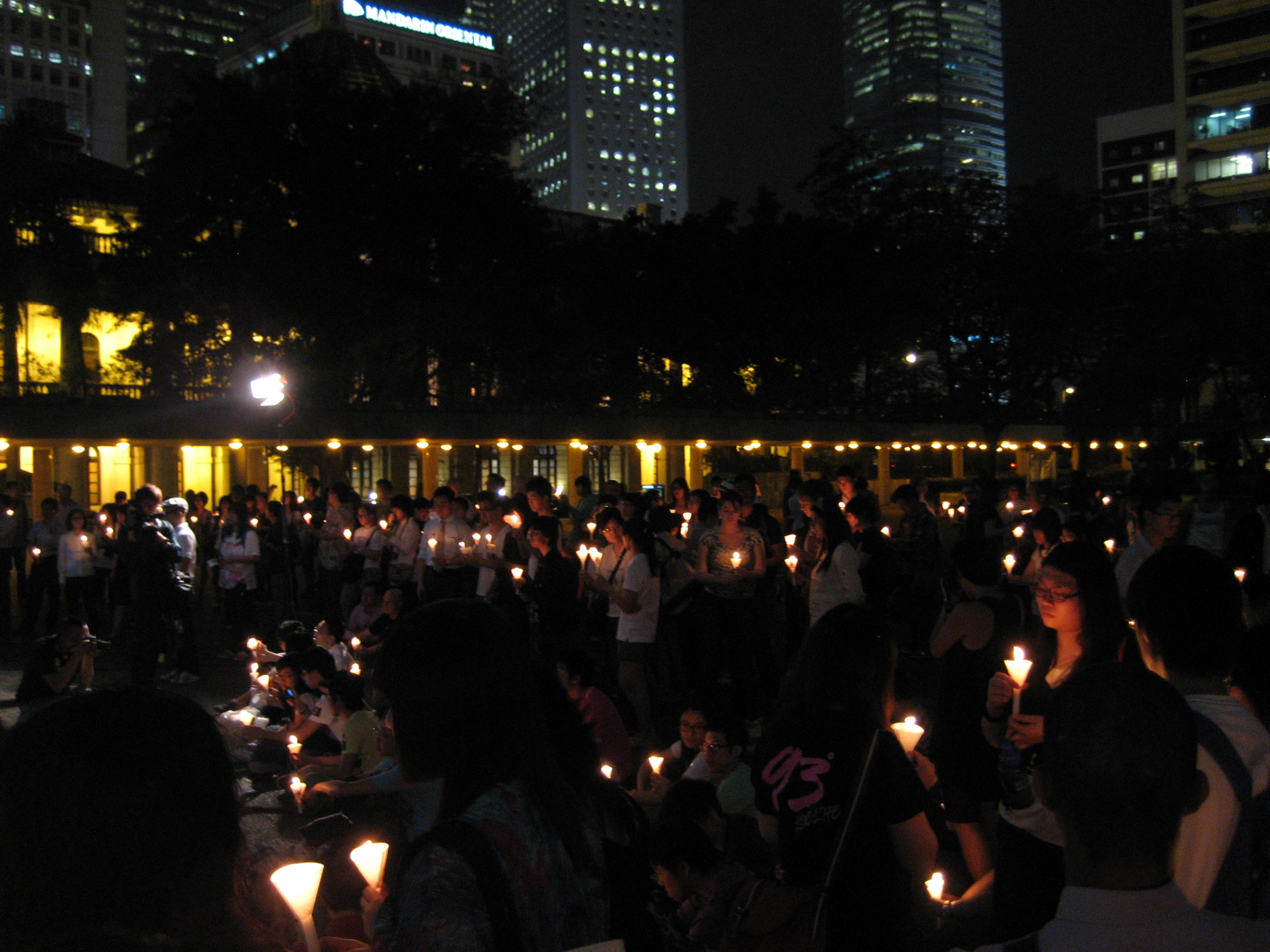 Candlelight Vigil